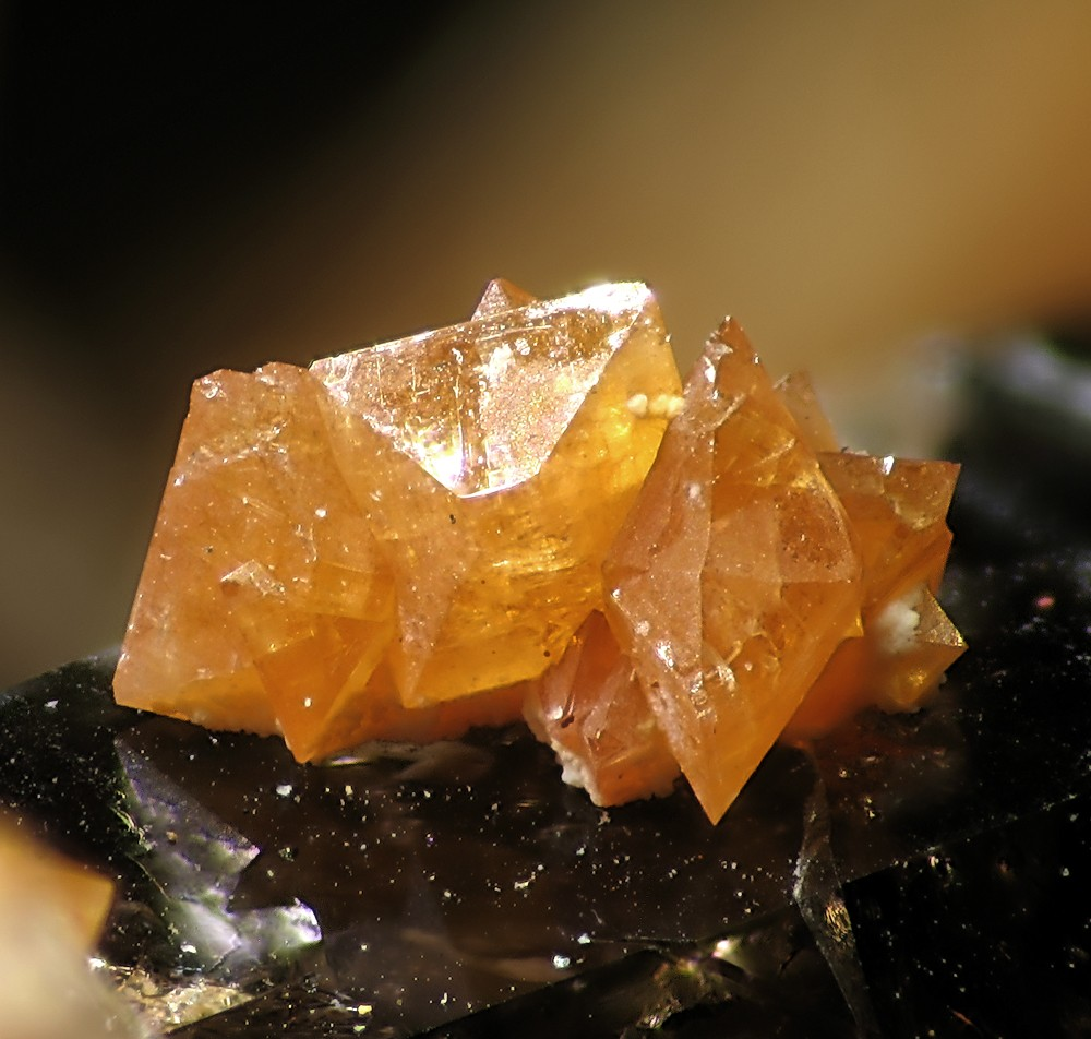 Xenotime-(Y) Locality: Mt Malosa, Zomba District, Malawi (Locality at ) Picture width 3 mm. Collection and photograph Christian Rewitzer